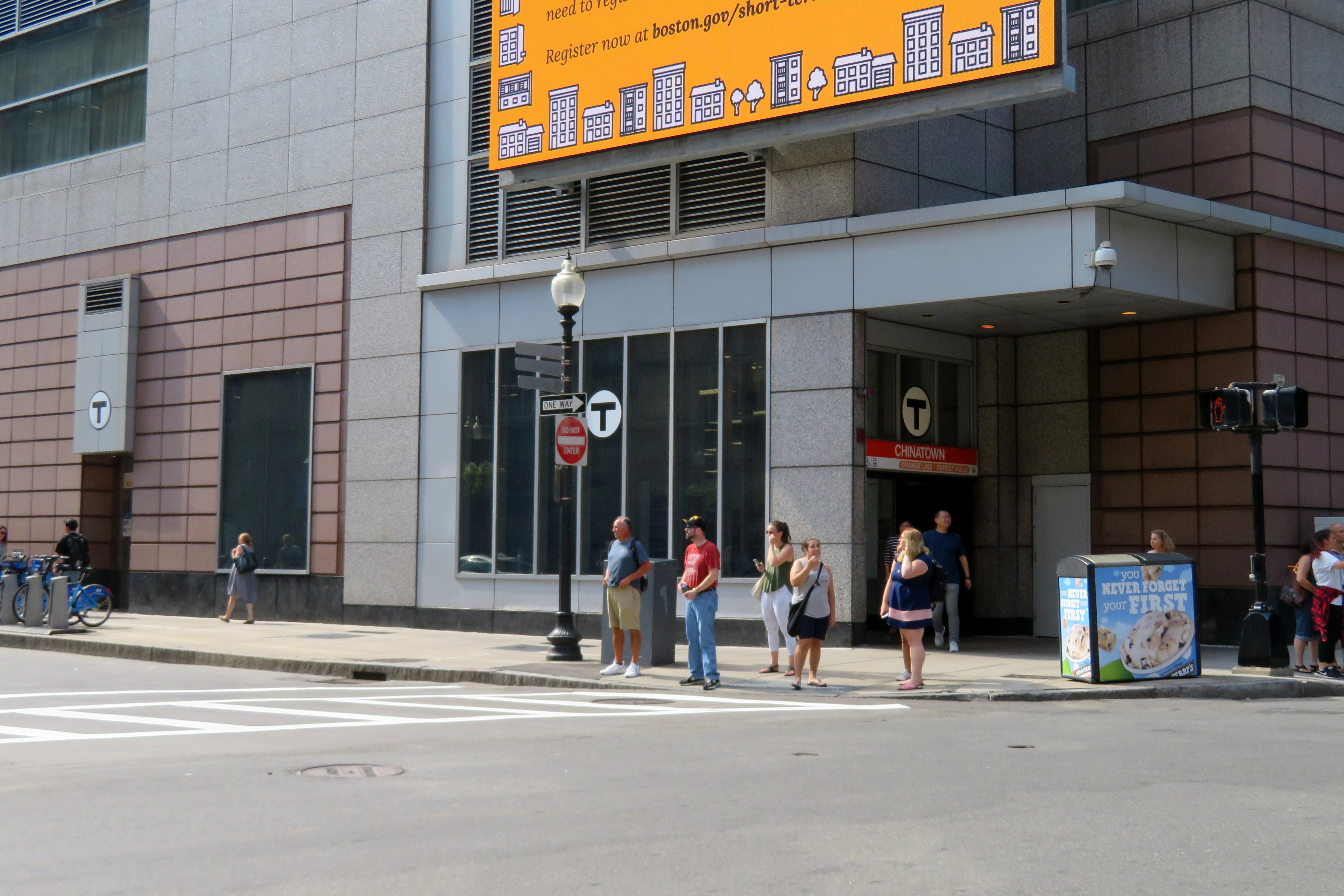 The southbound entrance to Chinatown station in July 2019